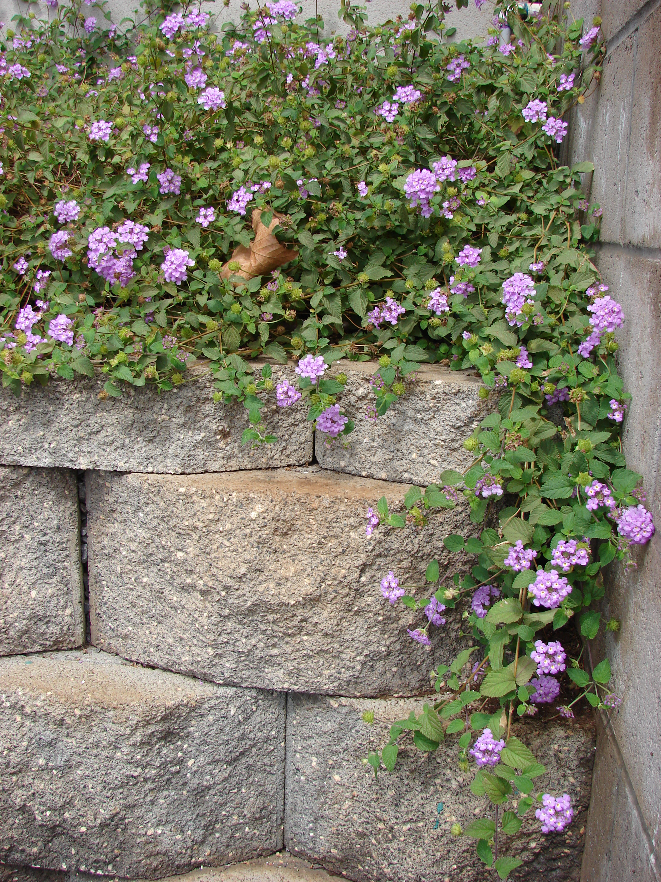 Lantana montevidensis (habit purple flowers). Location: Maui, Lahainaluna Road